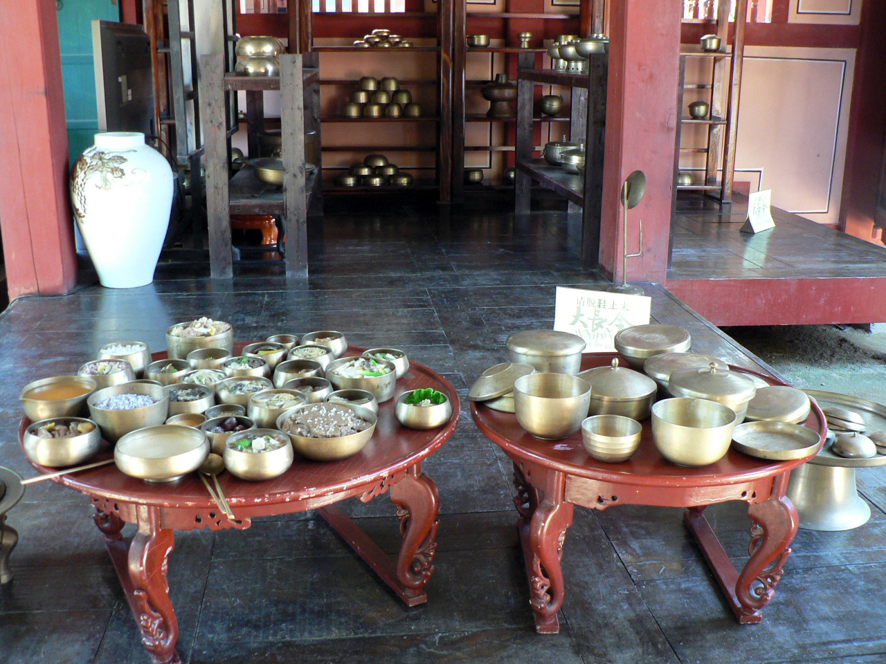 photo by ??????